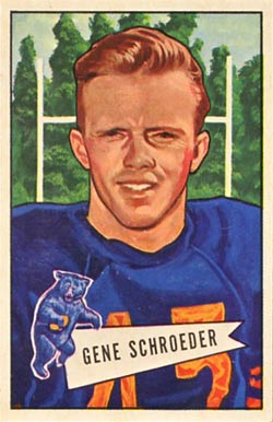 American football player Gene Schroeder on a 1952 Bowman Large card.